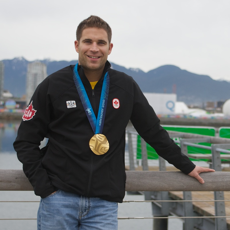 Curler John Morris in Vancouver 2010.